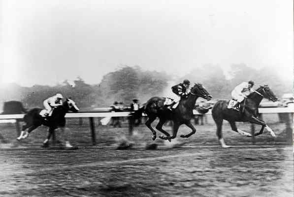 Man o' War suffers his sole defeat to Upset in the Sanford Stakes at Saratoga in 1919